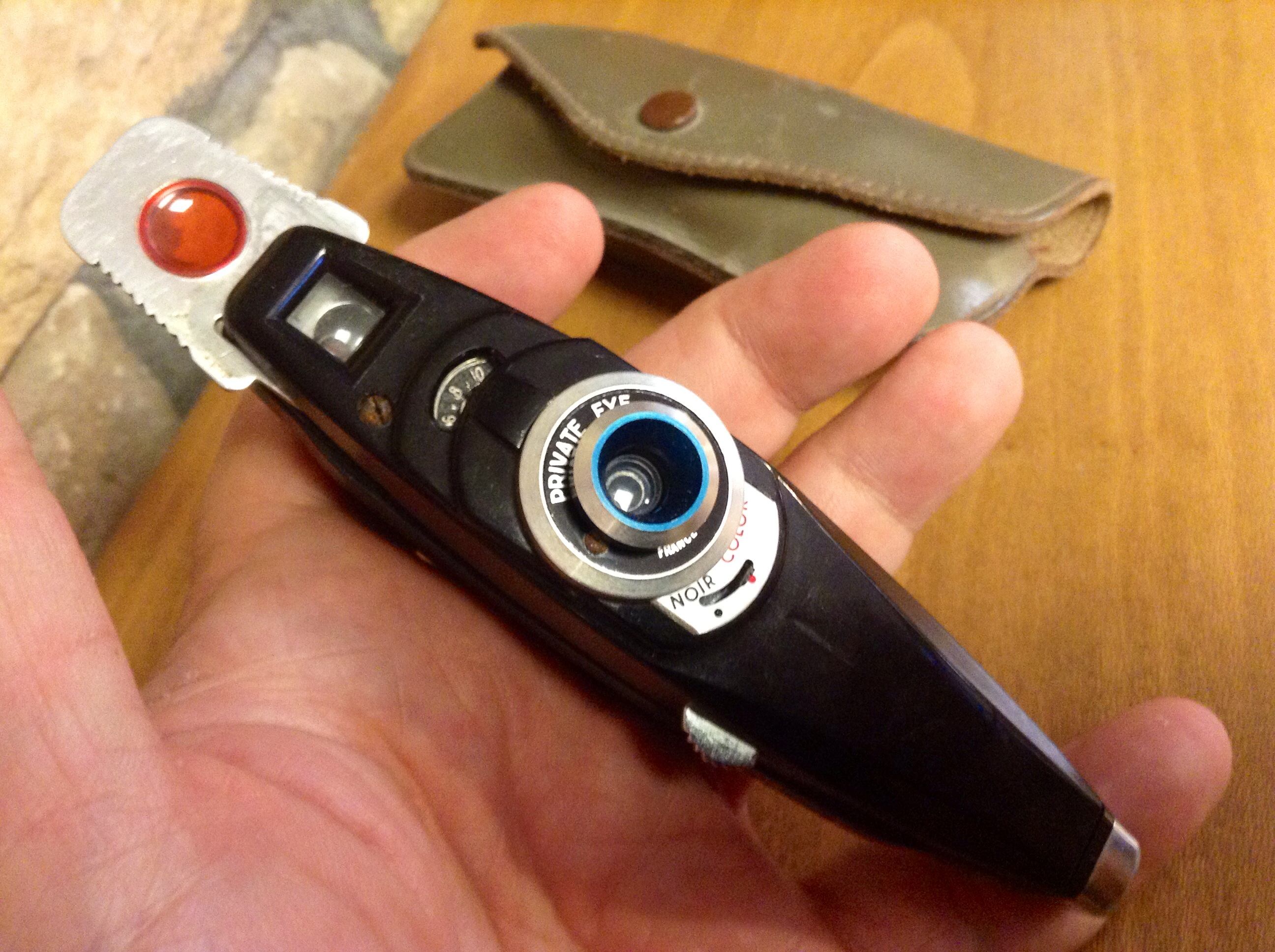 Stylophot spycam 1955 "Private Eye" Subminiature Spy Camera.